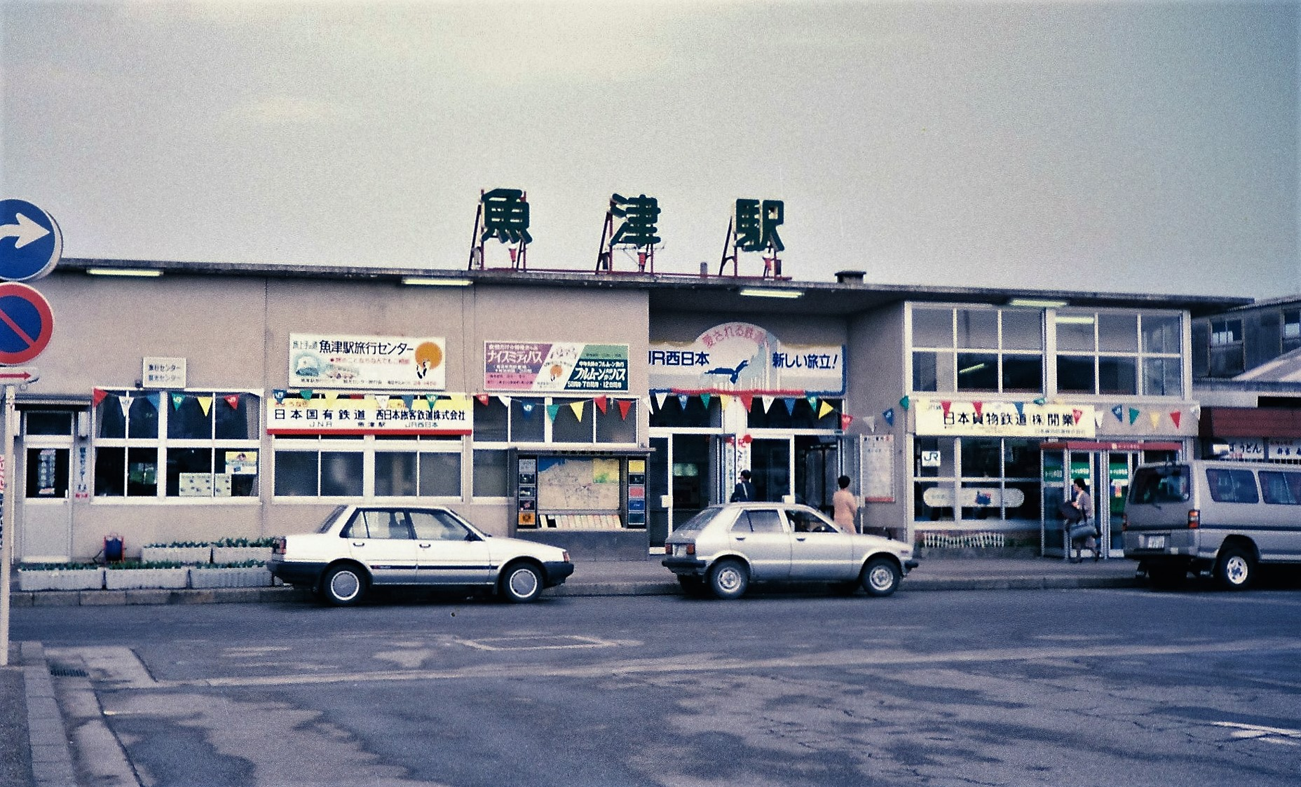 Uozu Station